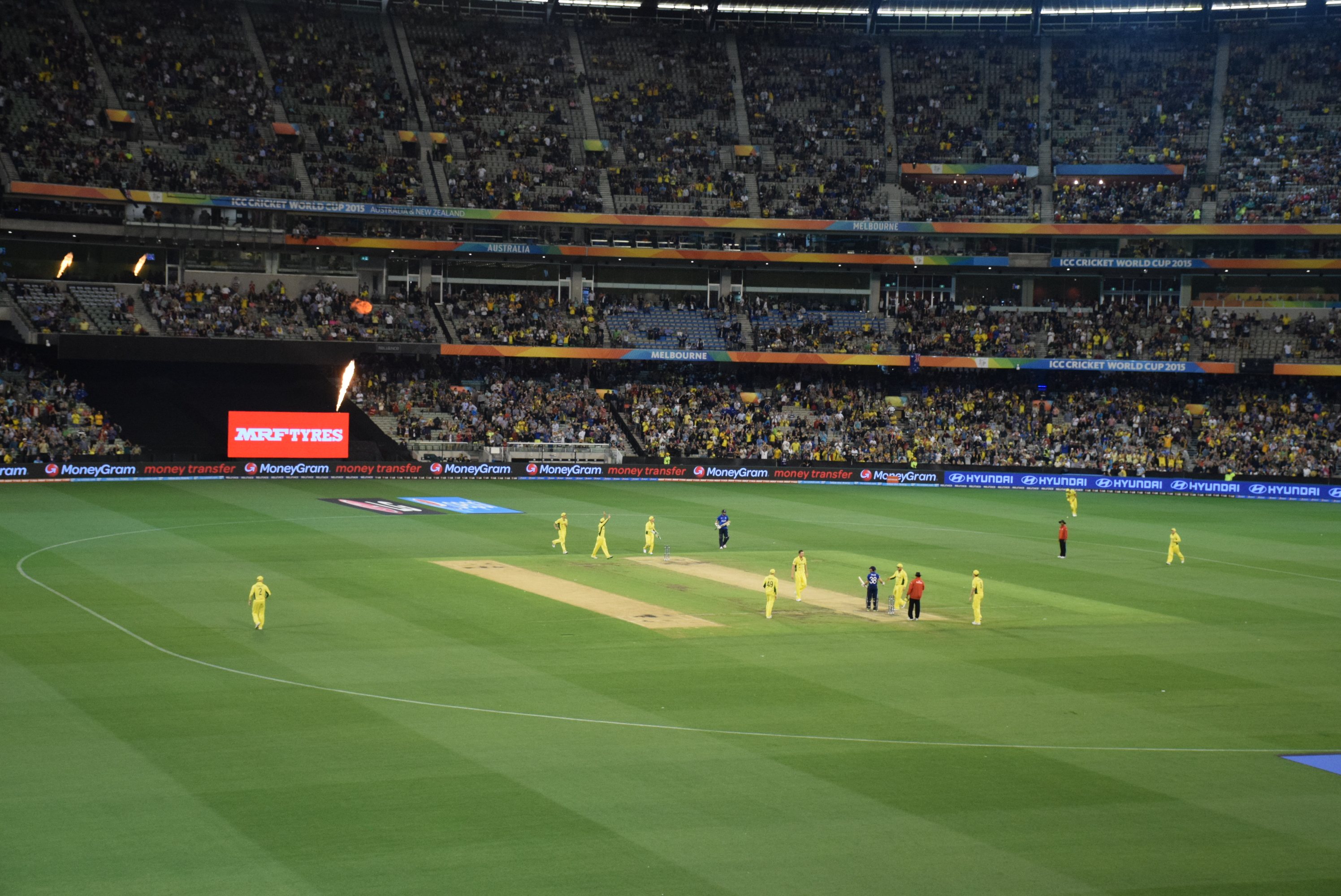 Second game of the 2015 Cricket World Cup: Australia v. England, Melbourne Cricket Ground